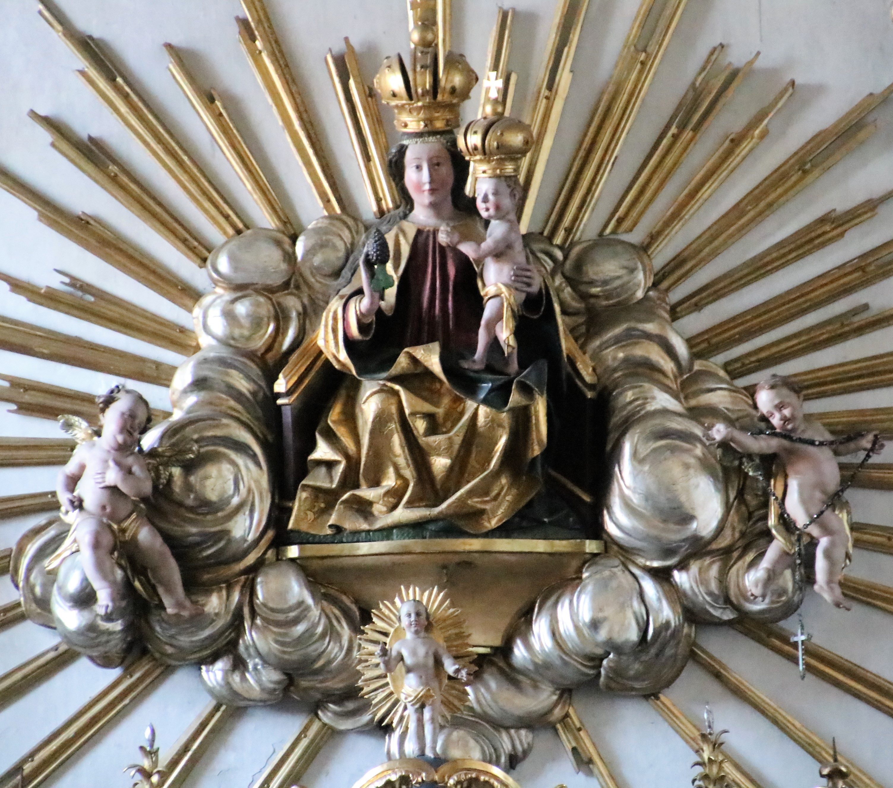 Church in Wanghausen Upper Austria